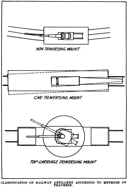 Diagrams showing the 3 common types of railway gun mountings in the World War I era : non-traversing, car traversing and top carriage traversing mounts.